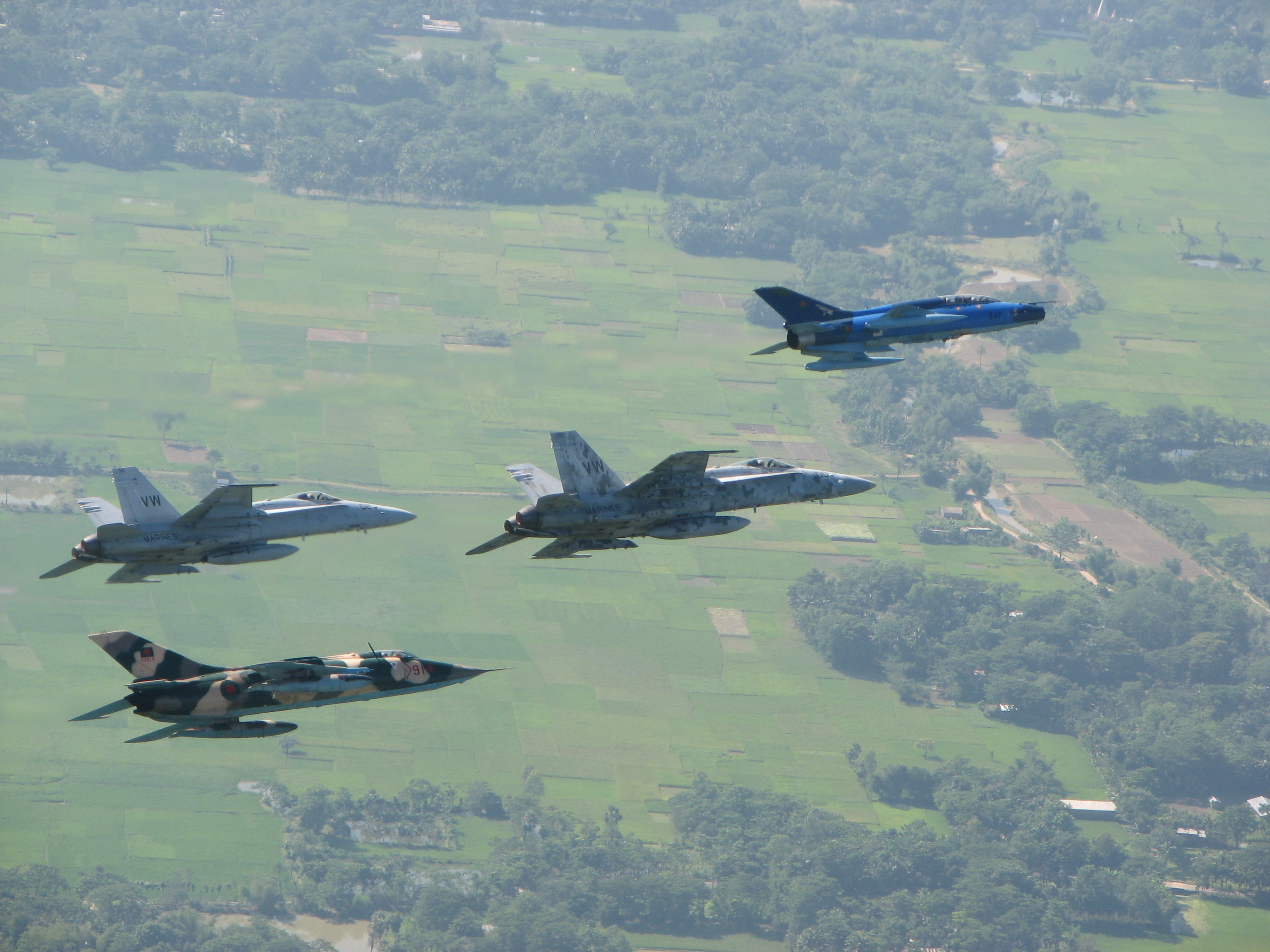 Bangladesh Air Force and US Marines in Air Exercise